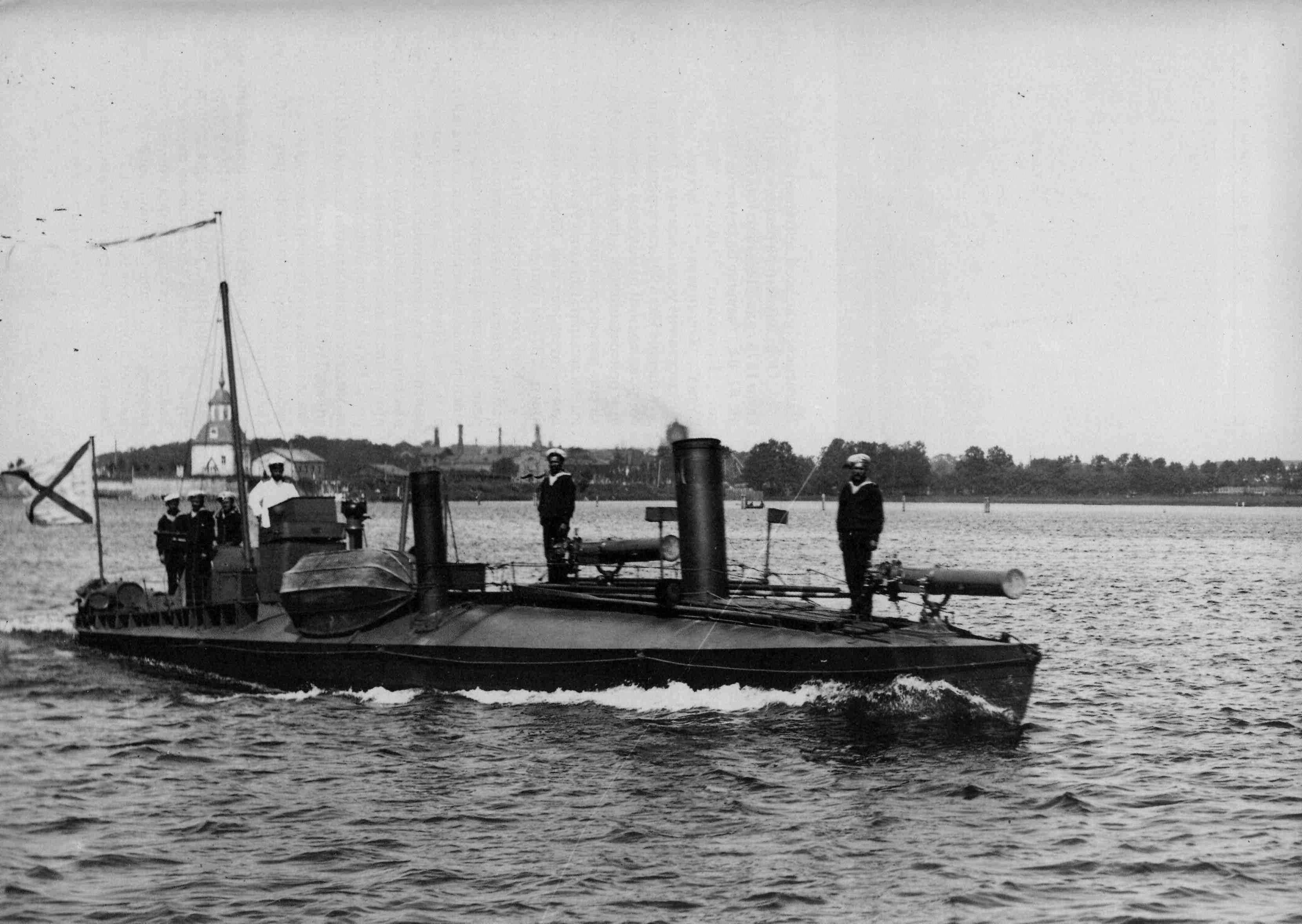 Russian torpedo boat № 61 (1878) with throwing mine launchers, St. Petersurg, 1890th